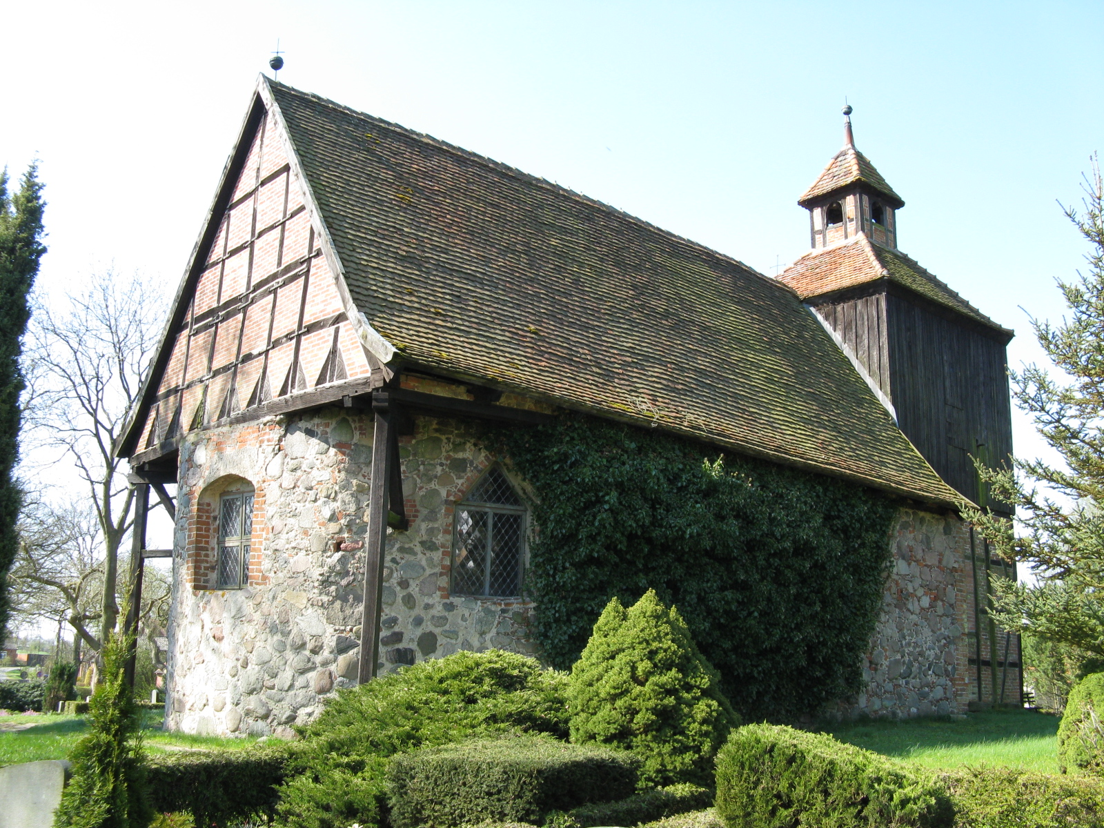 Church in Karbow, disctrict Parchim, Mecklenburg-Vorpommern, Germany